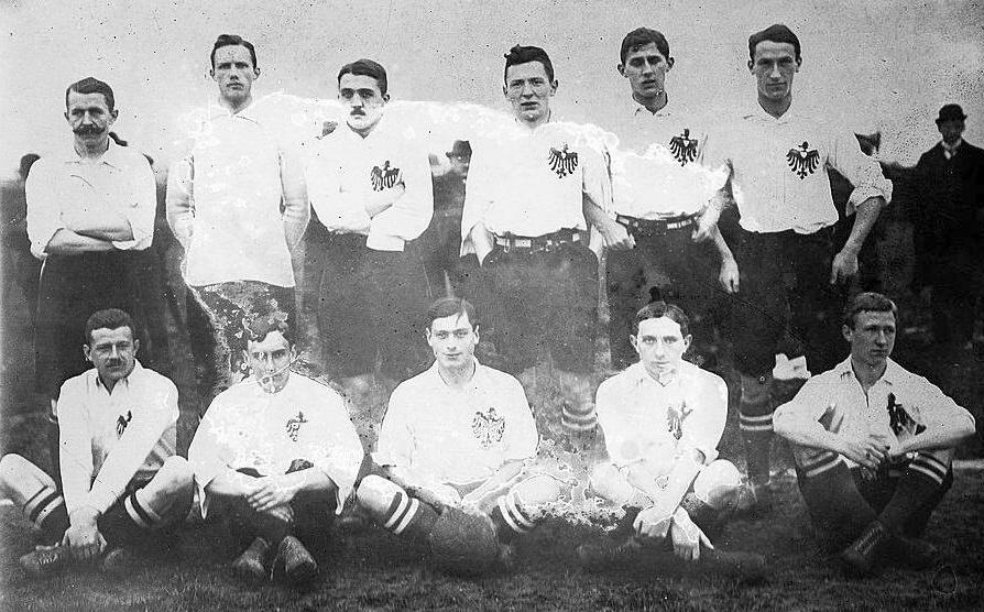 The football team of "BFC Preussen", Berlin (Germany), circa 1910-1915.